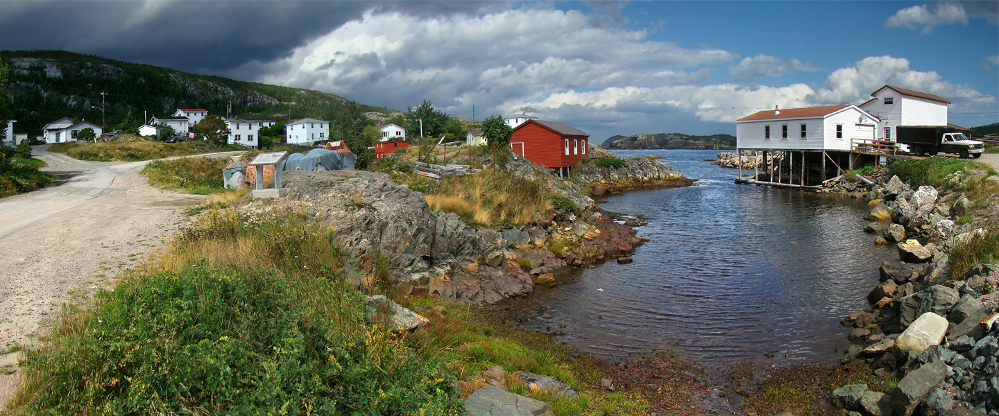 Salvage, Eastport Peninsula, Central Newfoundland, Canada.